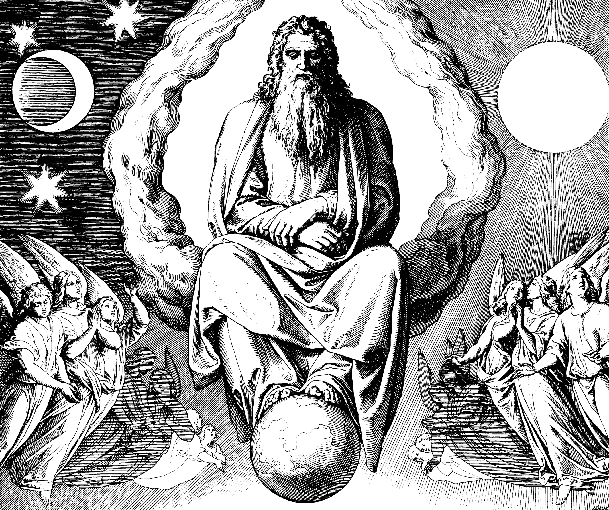 Woodcut for "Die Bibel in Bildern", 1860. Siebter Tag, Gott ruht.